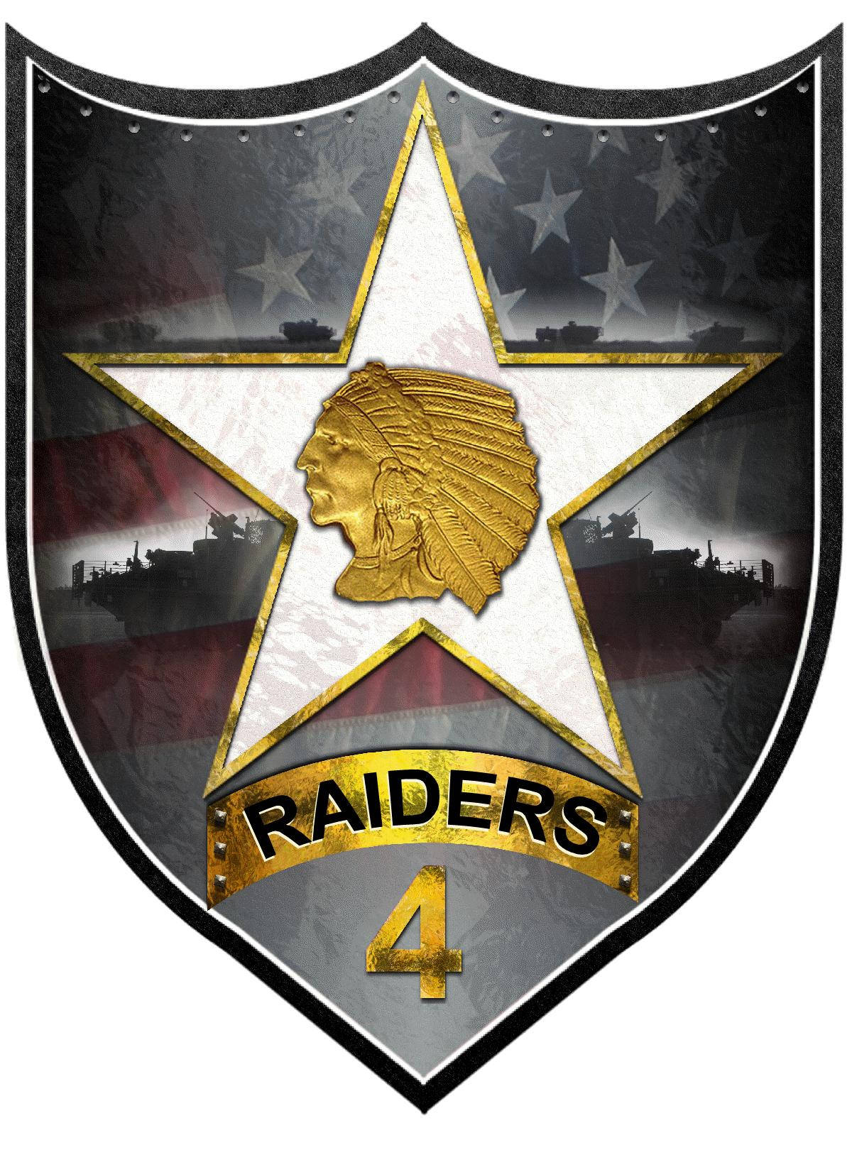 Unit Creat for 4th Stryker Brigade, 2nd Infantry Division "Raiders"